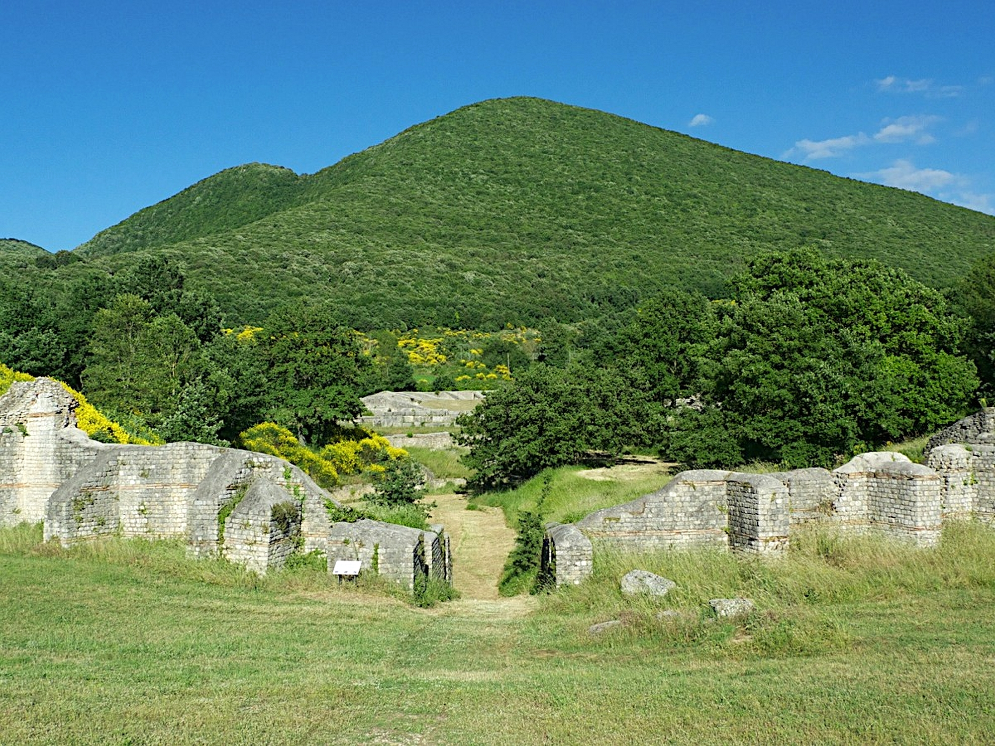 Amphitheatre, Carsulae